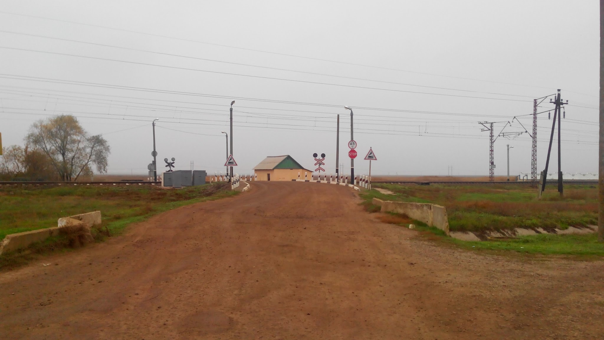 Road to Ataman in Chonhar, Kherson Oblast, Ukraine